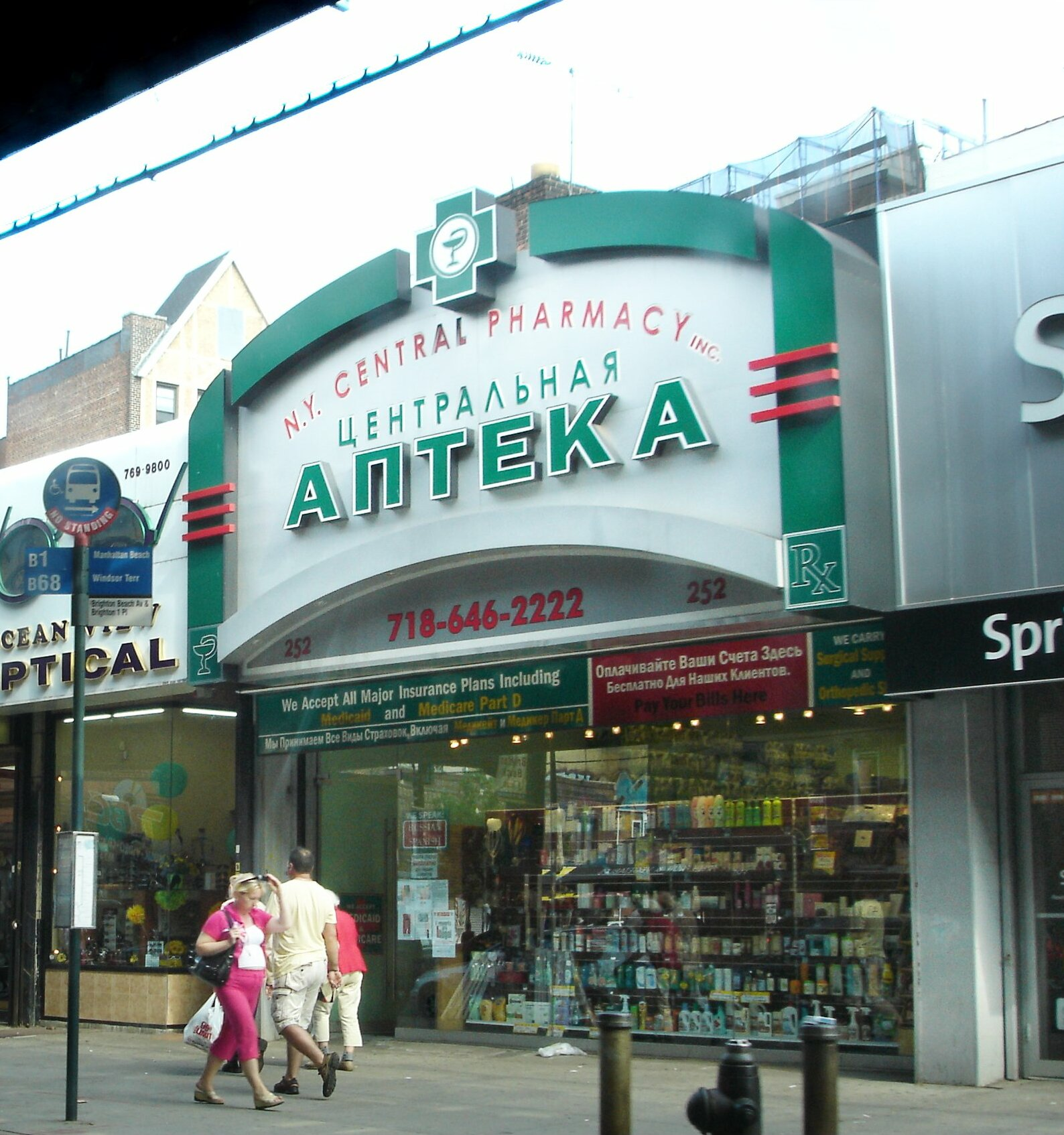 Storefront of NY Central Pharmacy (центральная аптека) in Brighton Beach which includes the Russian name